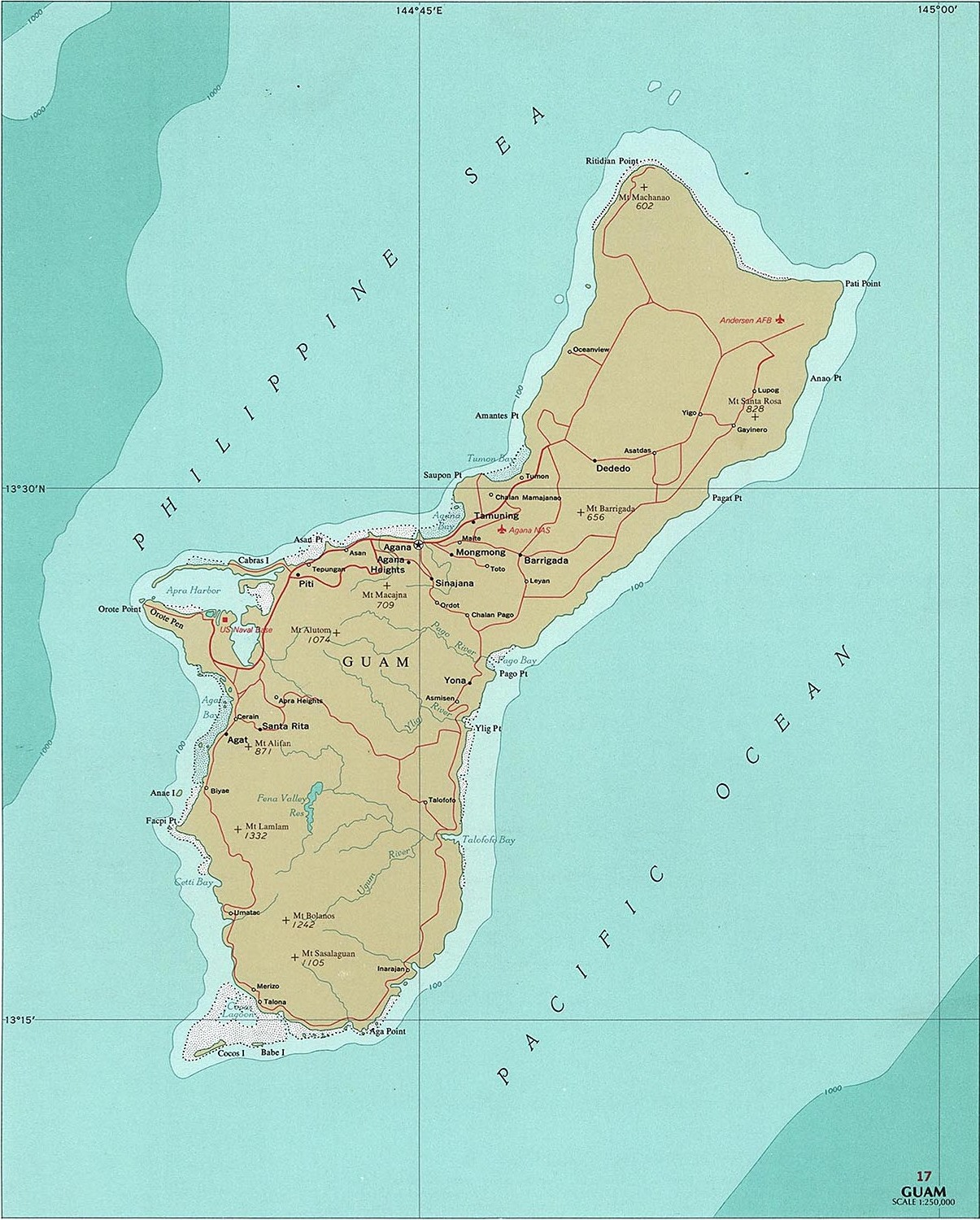 National Atlas of the United States, page "Pacific Outlying Areas", with map insets: Guam